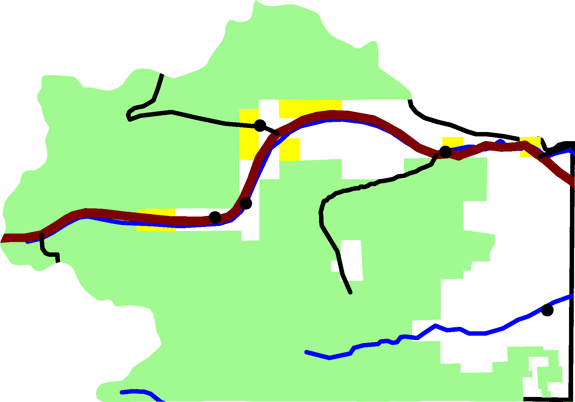 A map of Clear Creek County, Colorado. The dark red line is Interstate 70. Black lines are other roads. Dots are towns. The light green area is Arapaho National Forest and other national forest. Yellow is BLM land. David Benbennick made this map with data from . Eventually I'll upload the Metapost script I used. In the mean time, see map.mp.